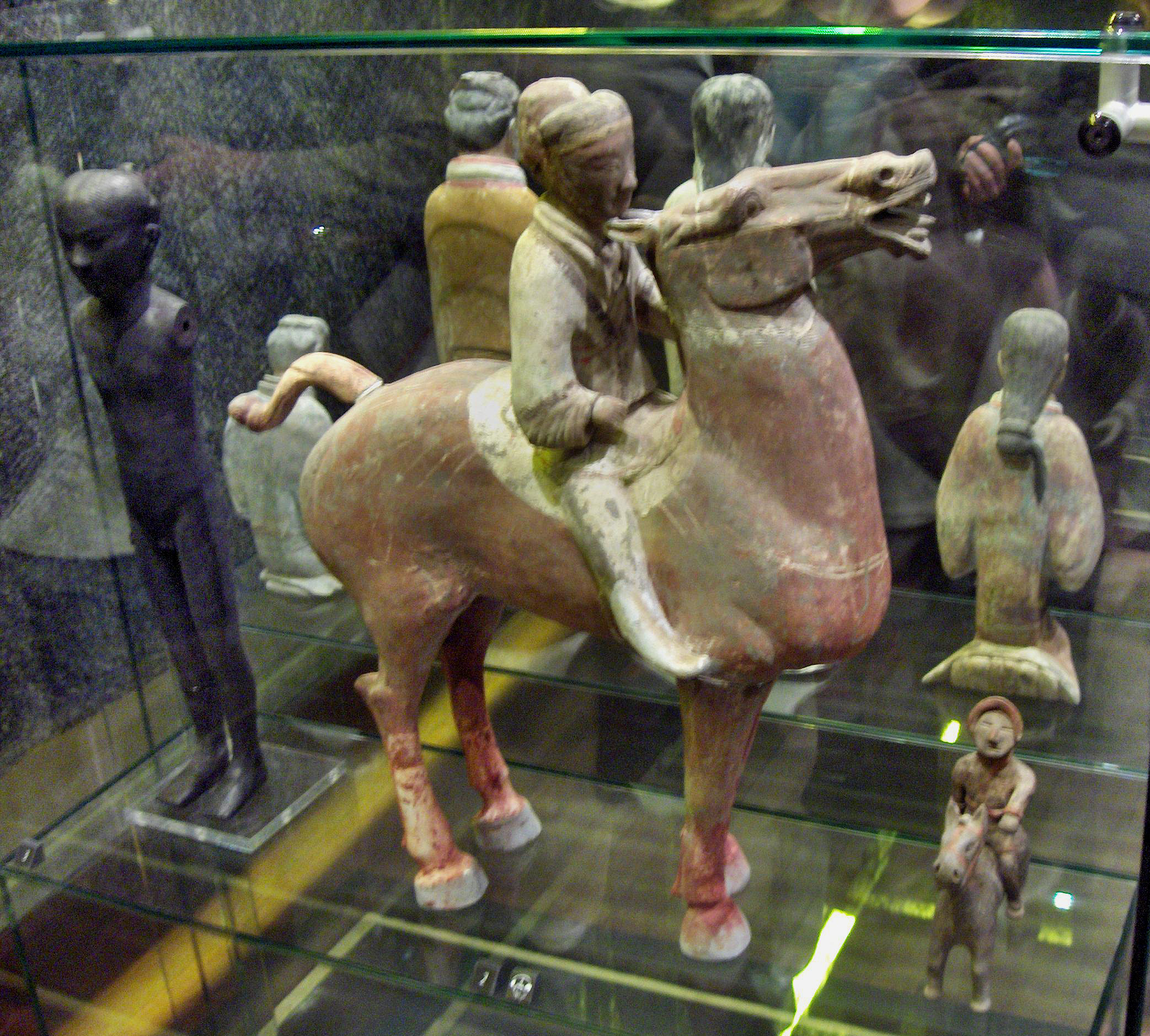 Horseman and horse; early 2nd century BC